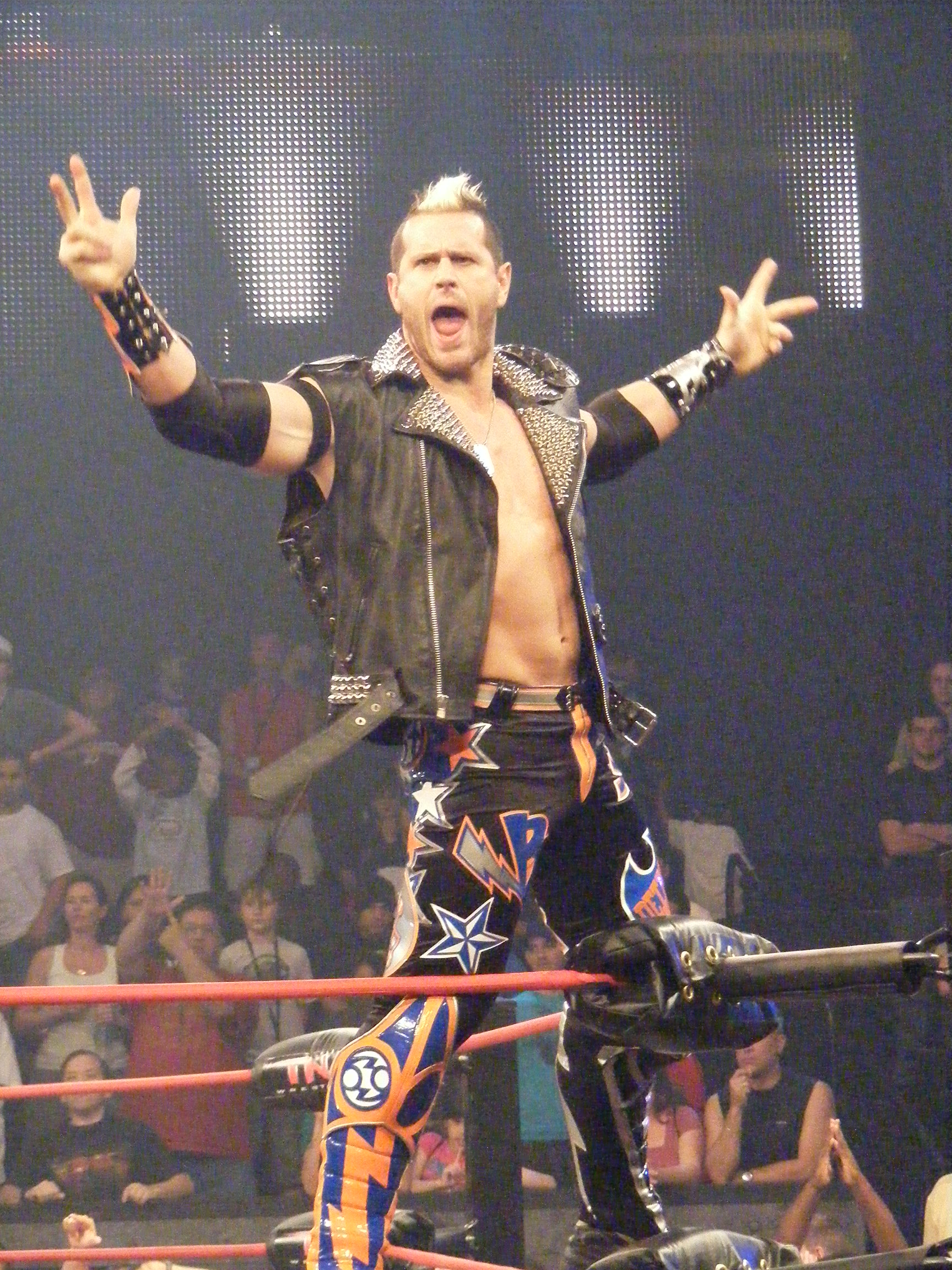 Alex Shelley poses for the TV cameras during a TNA Xplosion taping.